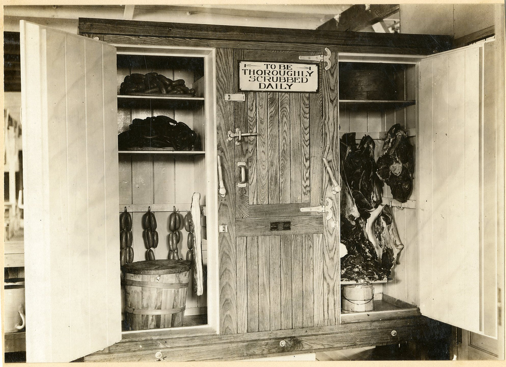 Ice box. "To be thoroughly scrubbed daily." Camp Devens, Massachusetts. World War 1